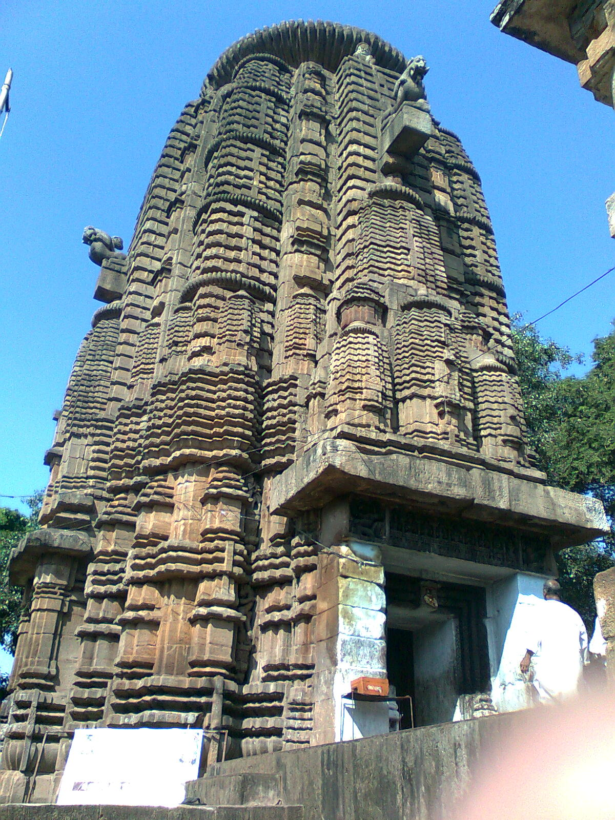 rameshwar temple in bhubaneshwar